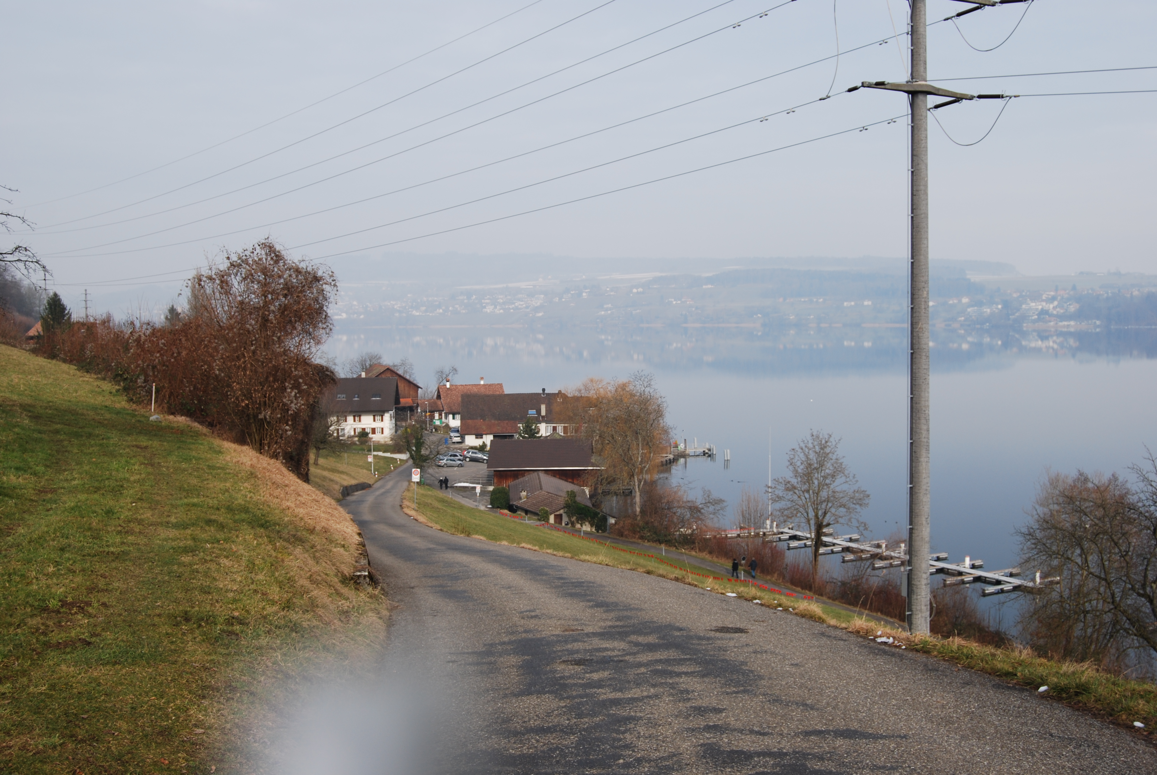 Birrwil at the board of Lake Hallwil, canton of Aargau, SwitzerlandEsperanto: Birrwil ĉe la bordo de la Lago de Hallwil, Kantono Argovio, Svislando